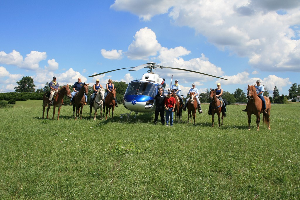 Members of Buffalo Trace Mounted Patrol SAR with air ambulance helicopter during a training session.